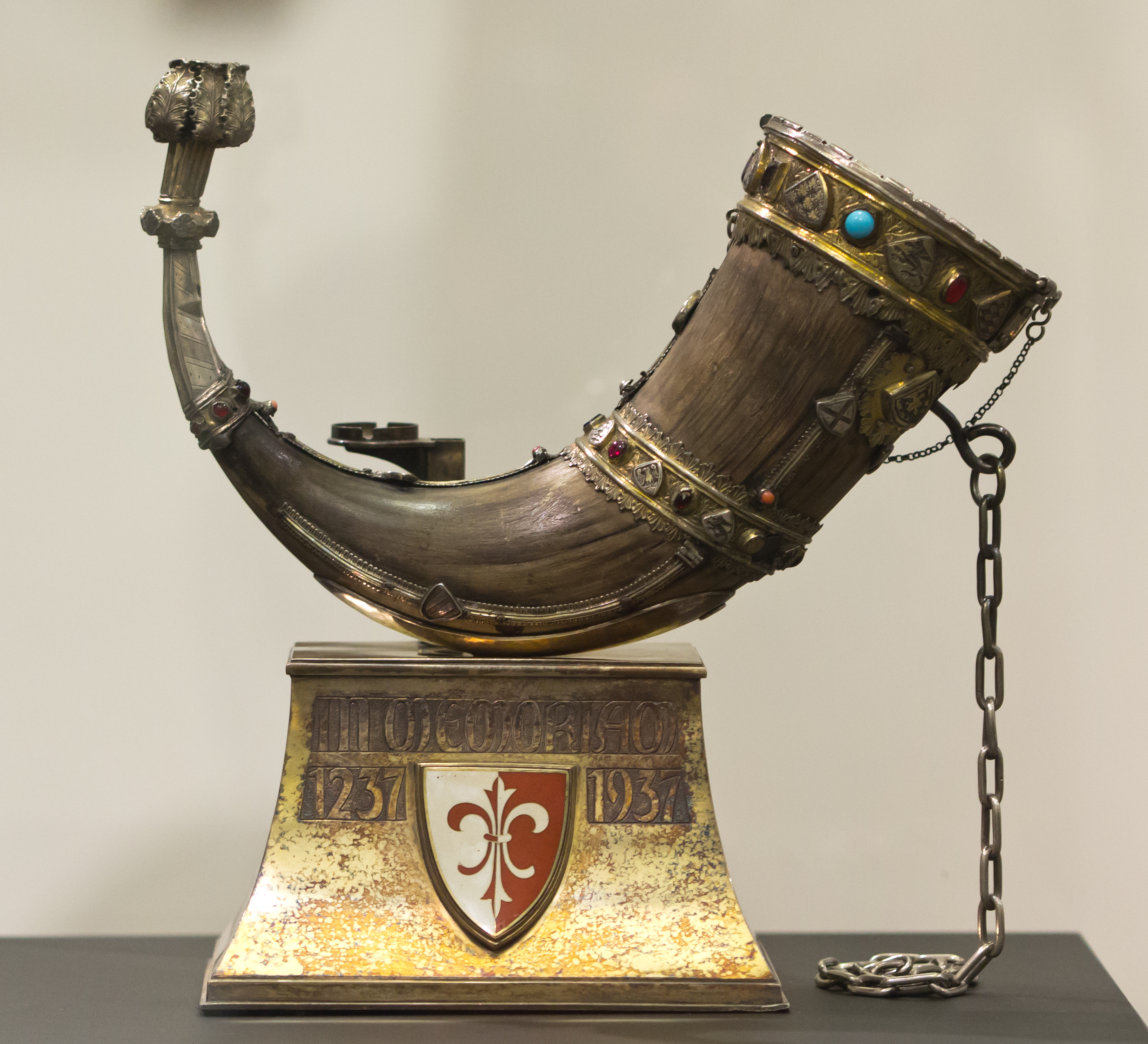 The so-called horn of Saint Cornelius in the romanesque church of St. Severin in Cologne, originally a drinking-horn, refurbished around the year 1500 as reliquary for several saints, including Saint Cornelius, Saint Cyprian, and the remains of Saint Ursula and her 11.000 virgin martyrs. It's exhibited in Museum Schnütgen in 2016 for a period of 2 months during renovation works in the church.